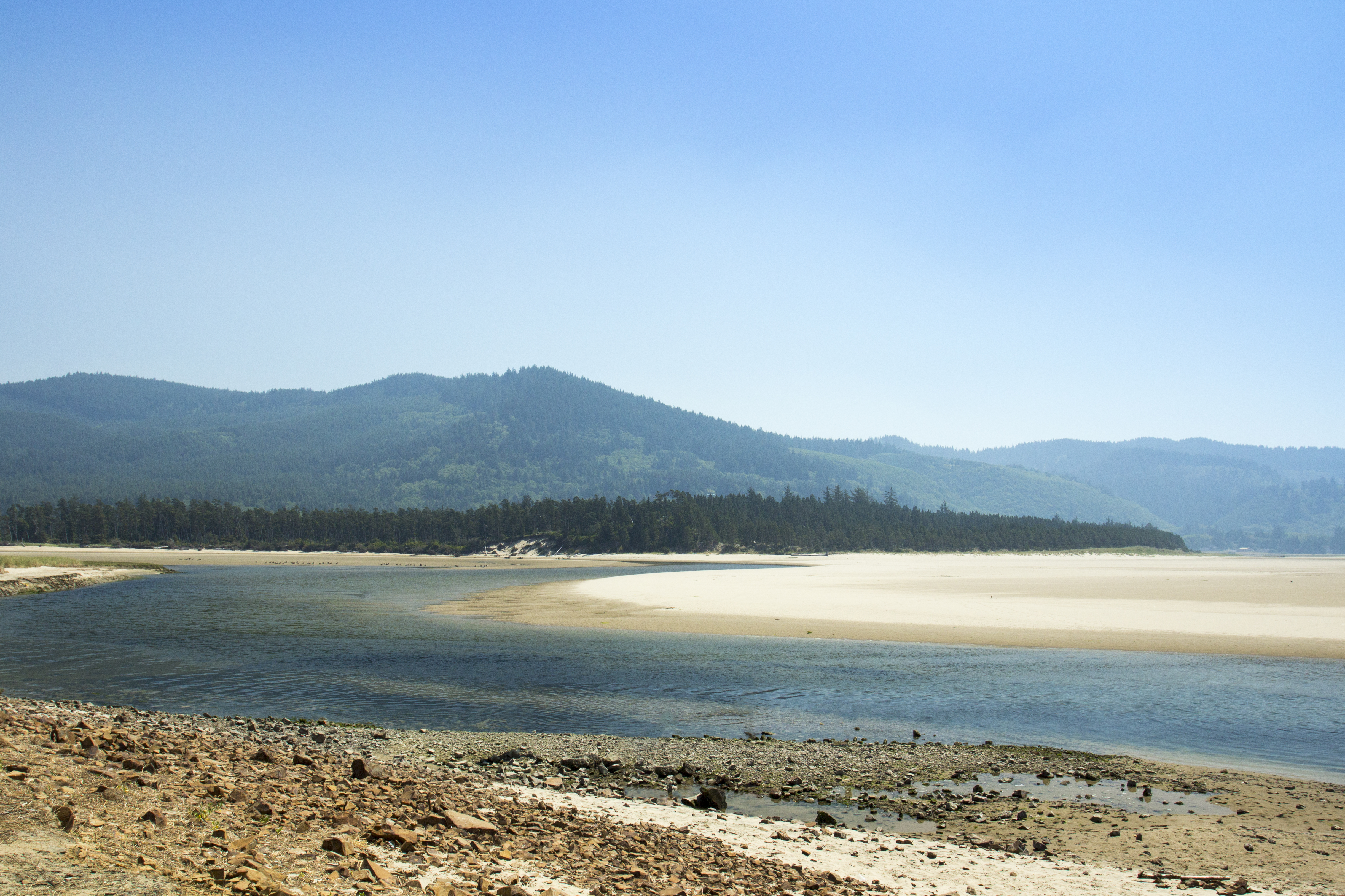 Tidal lake with the Pacific Ocean and end point of Sand Creek.